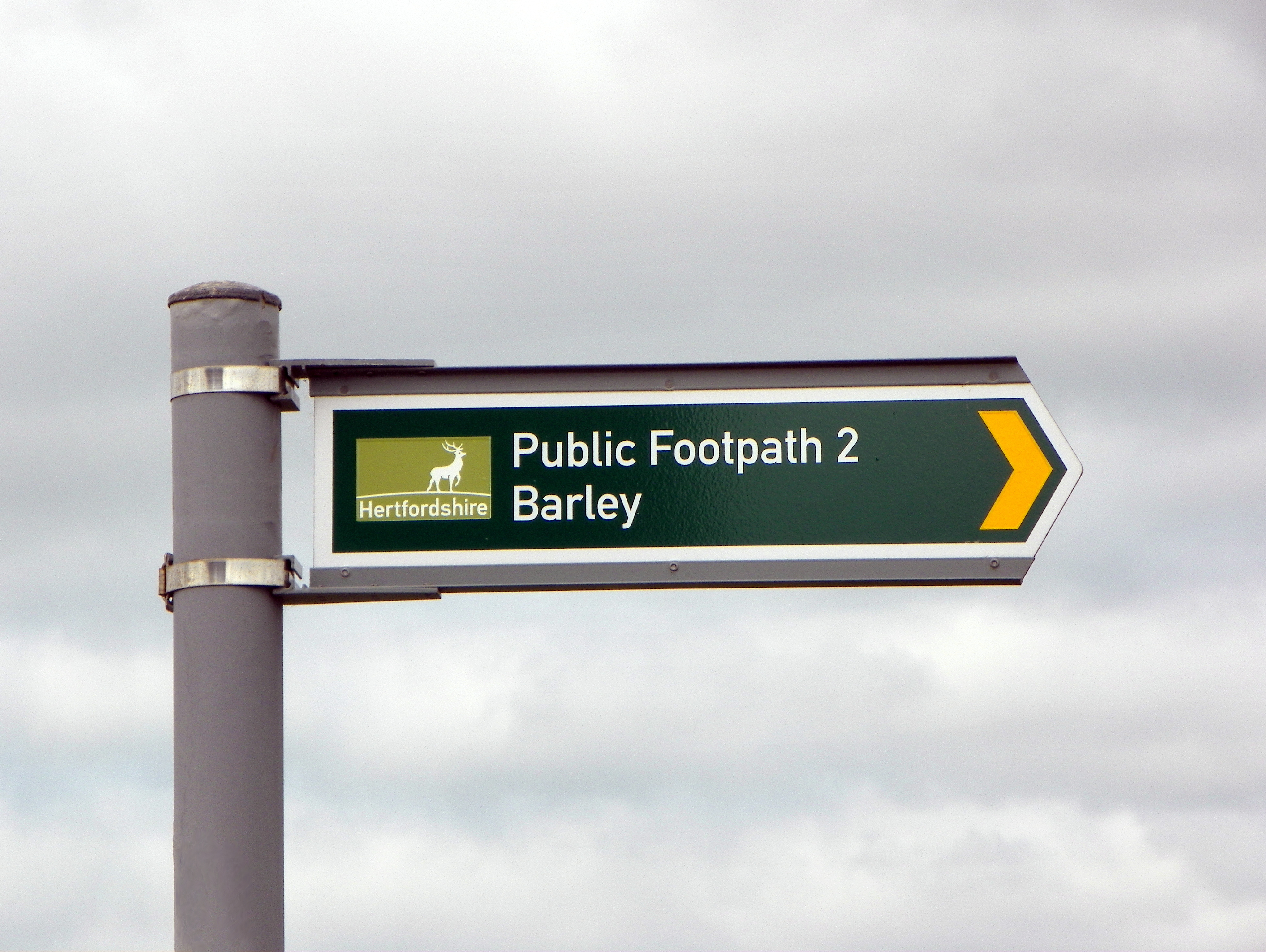 Hertfordshire Council roadsign showing a public access walkway.